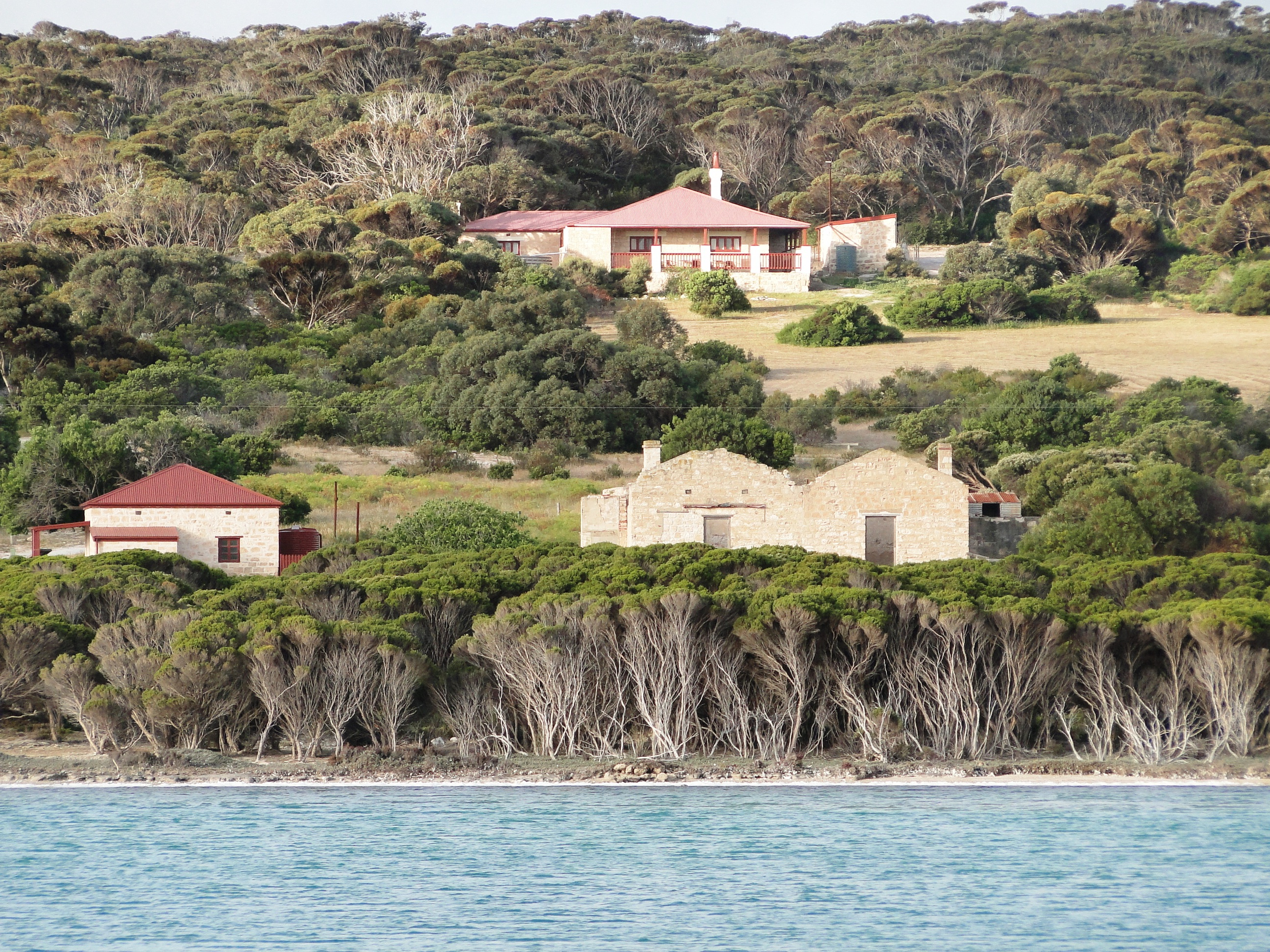 View of buildings at the abandoned mining town of Inneston, South Australia.